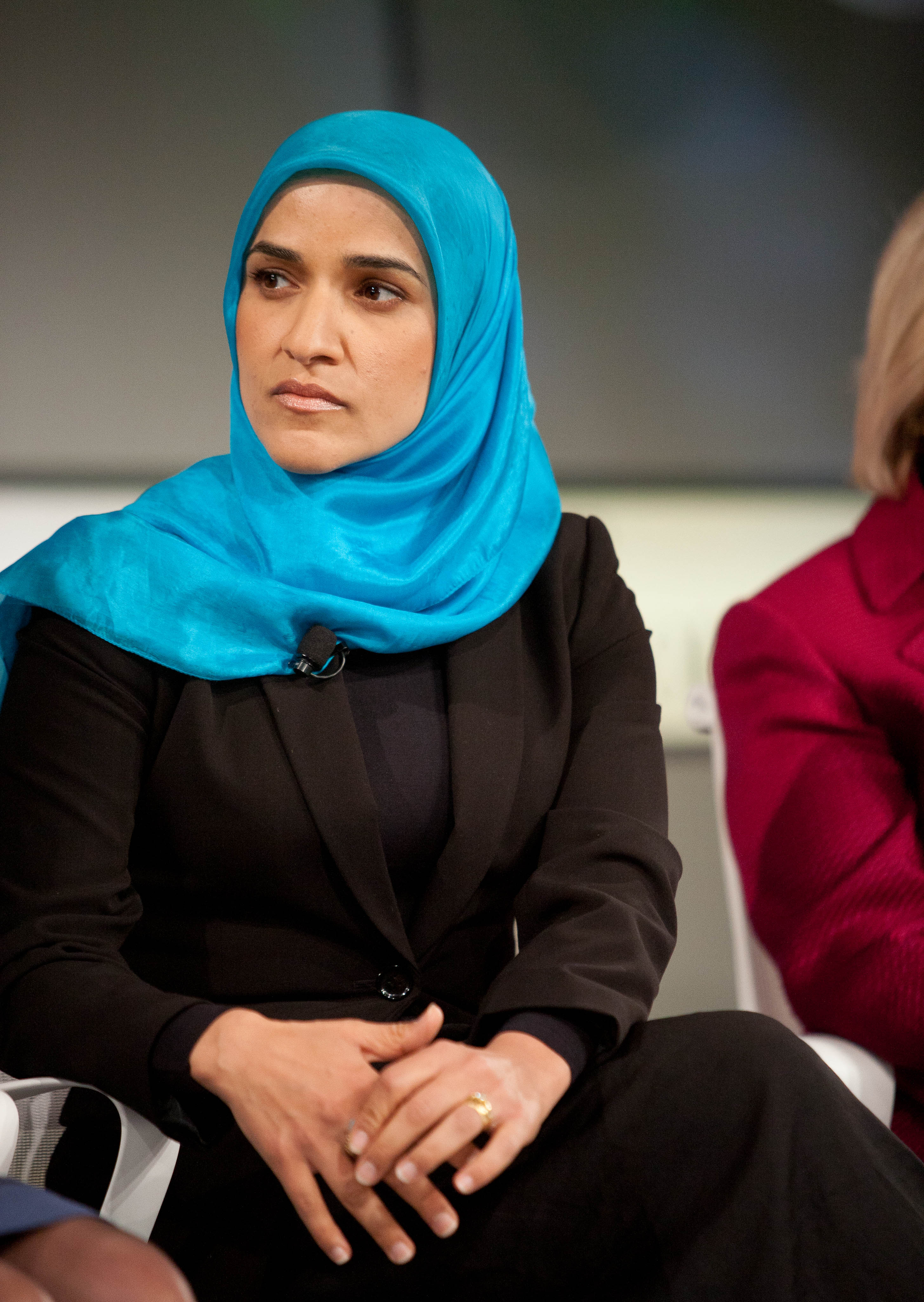 Dalia Mogahed at the Fortune Most Powerful Women Summit in Laguna Niguel, CA.